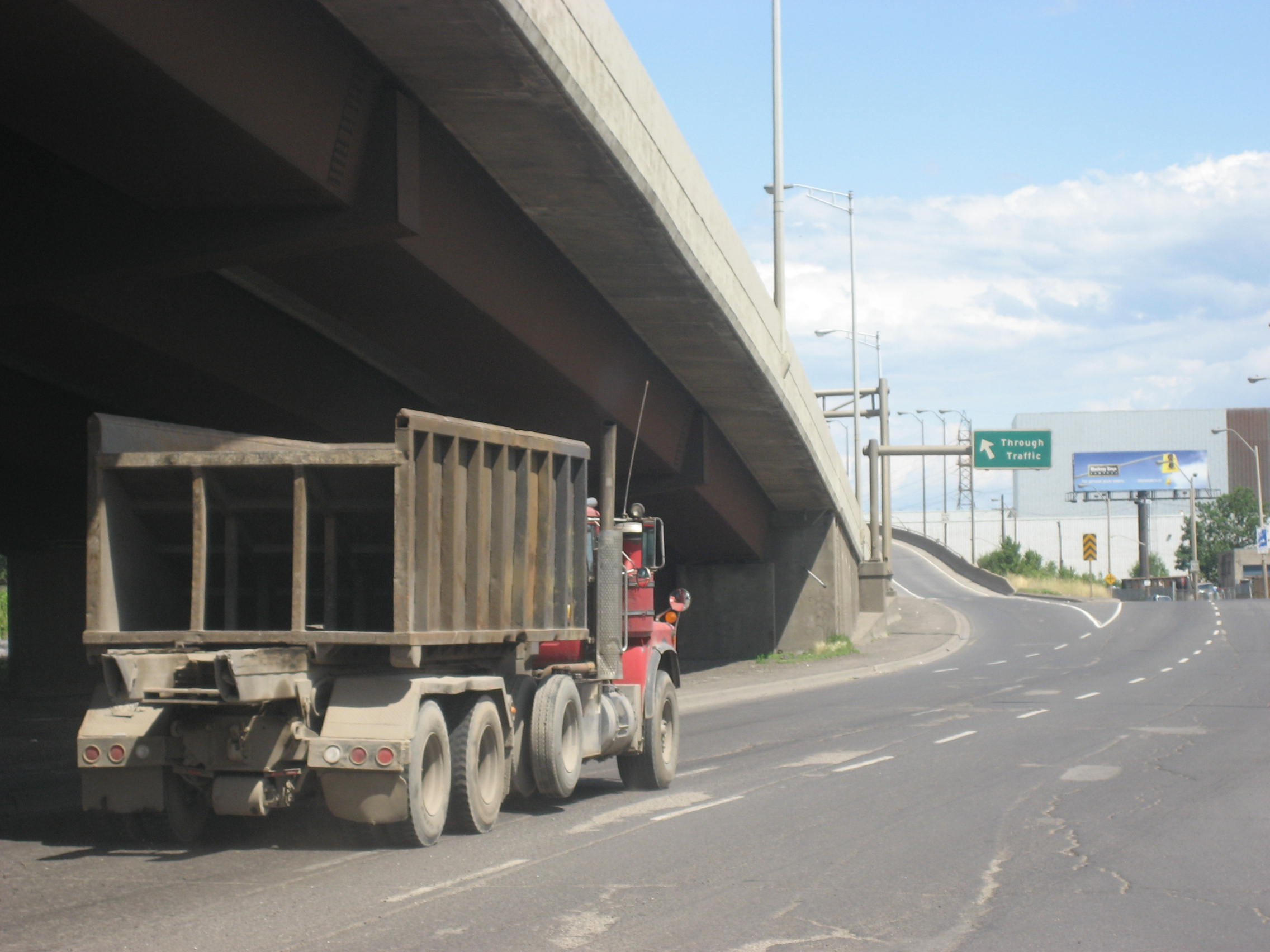 Burlington Street, Hamilton, Ontario